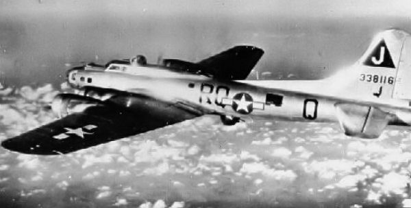 B-17G Serial 43-38116 of 509th Bomb Squadron, 351st Bomb Group, RAF Polebrook England.